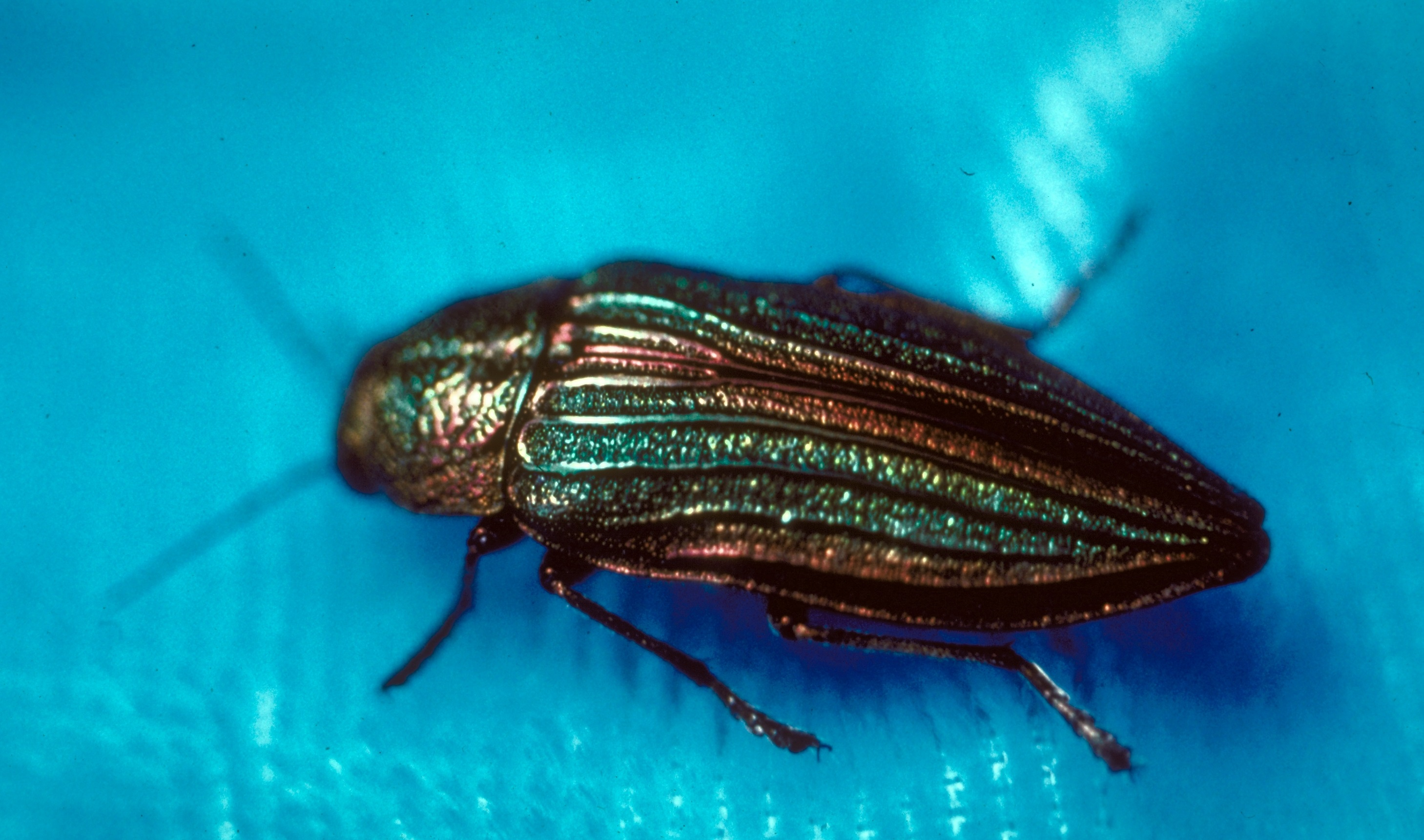 Buprestis aurulenta